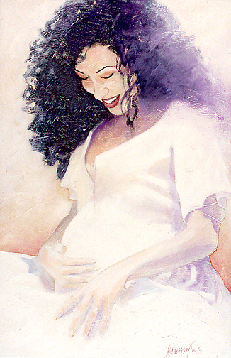 PG Lady by David Fairrington Acrylic 1997